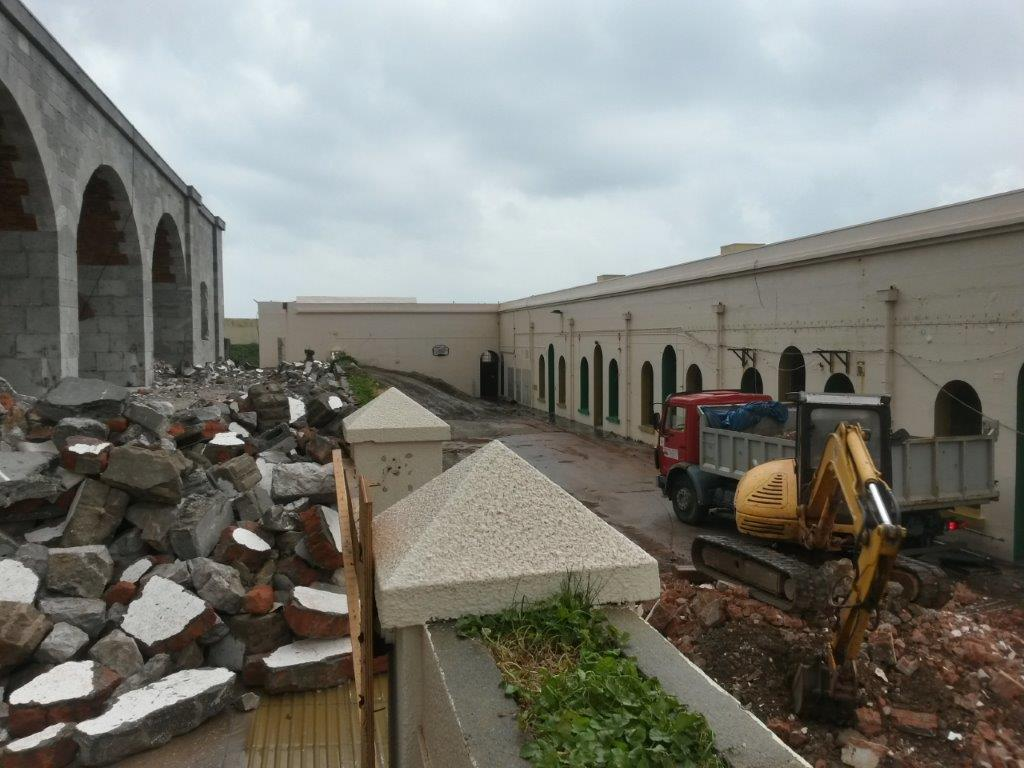 2015 image of the site that would later become the University of Gibraltar atrium.